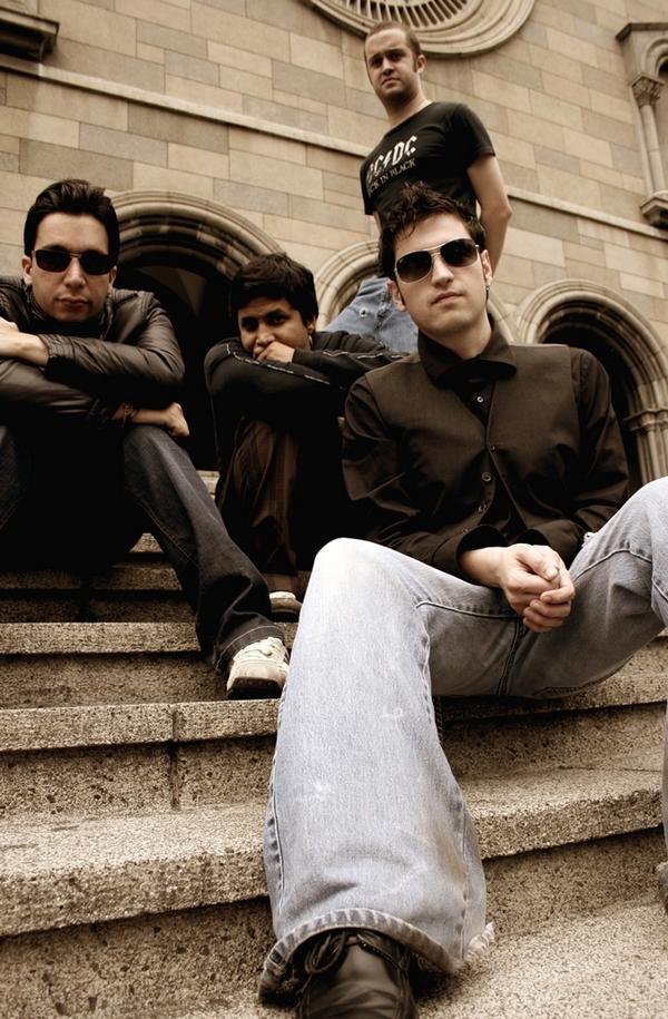 Verona Sesion Raco 2008